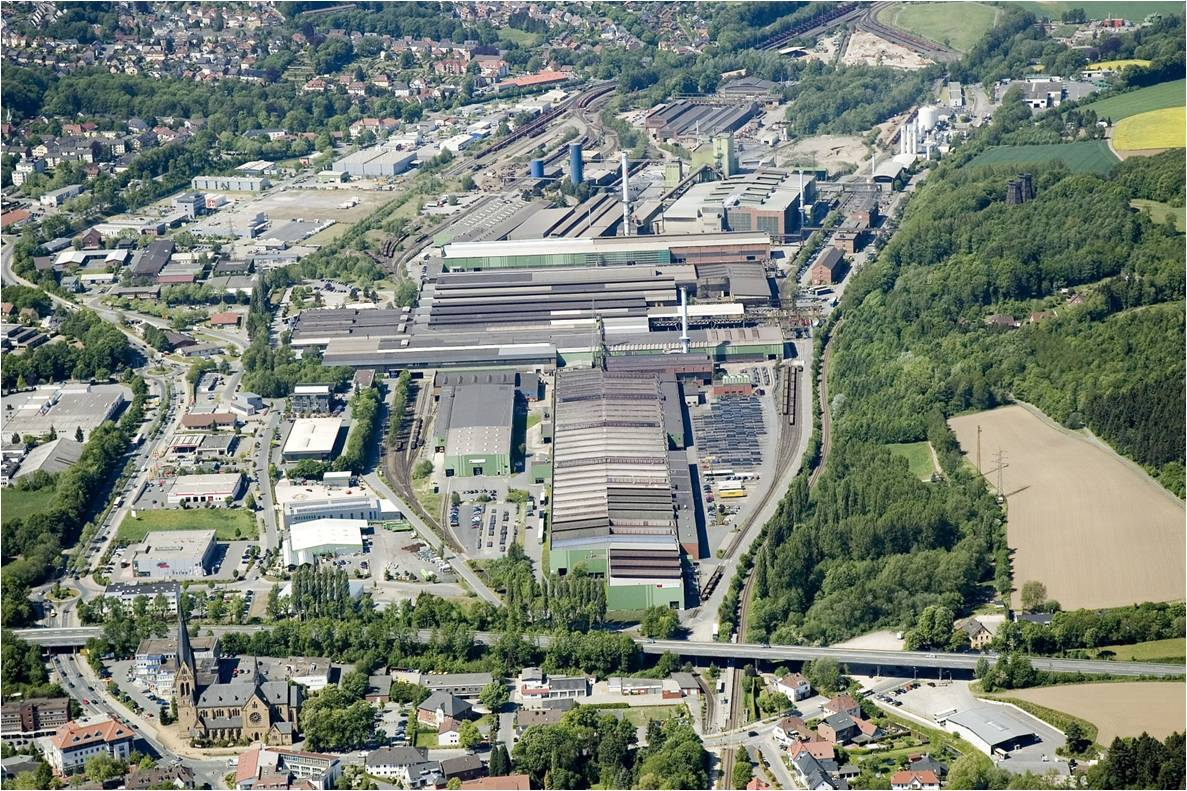 This picture shows the steel mill in Georgsmarienhütte from bird eye perspective